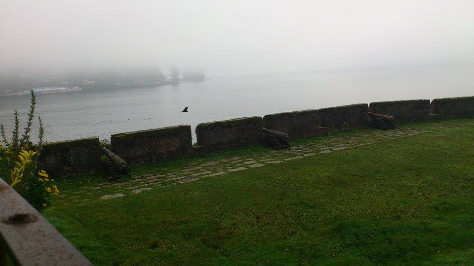 Fotografía del Fuerte San Carlos, en Corral.